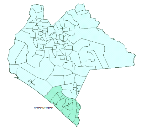 Location map for Soconusco region, Chiapas state. I am the author.